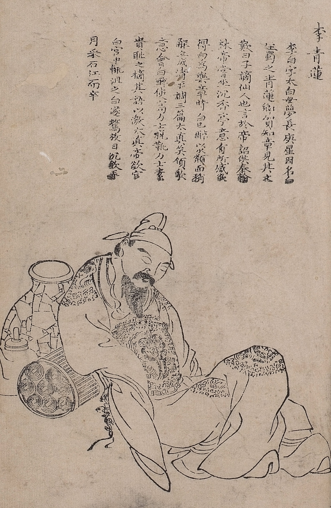 This is an illustration of Li Qinglian (李青蓮), also known as Li Bai (李白), in the Nanling Wushuang Pu (南陵無雙譜). Compiled and illustrated by Jin Guliang (金古良), Ming dynasty. Imprint of the Kangxi reign, Qing dynasty.